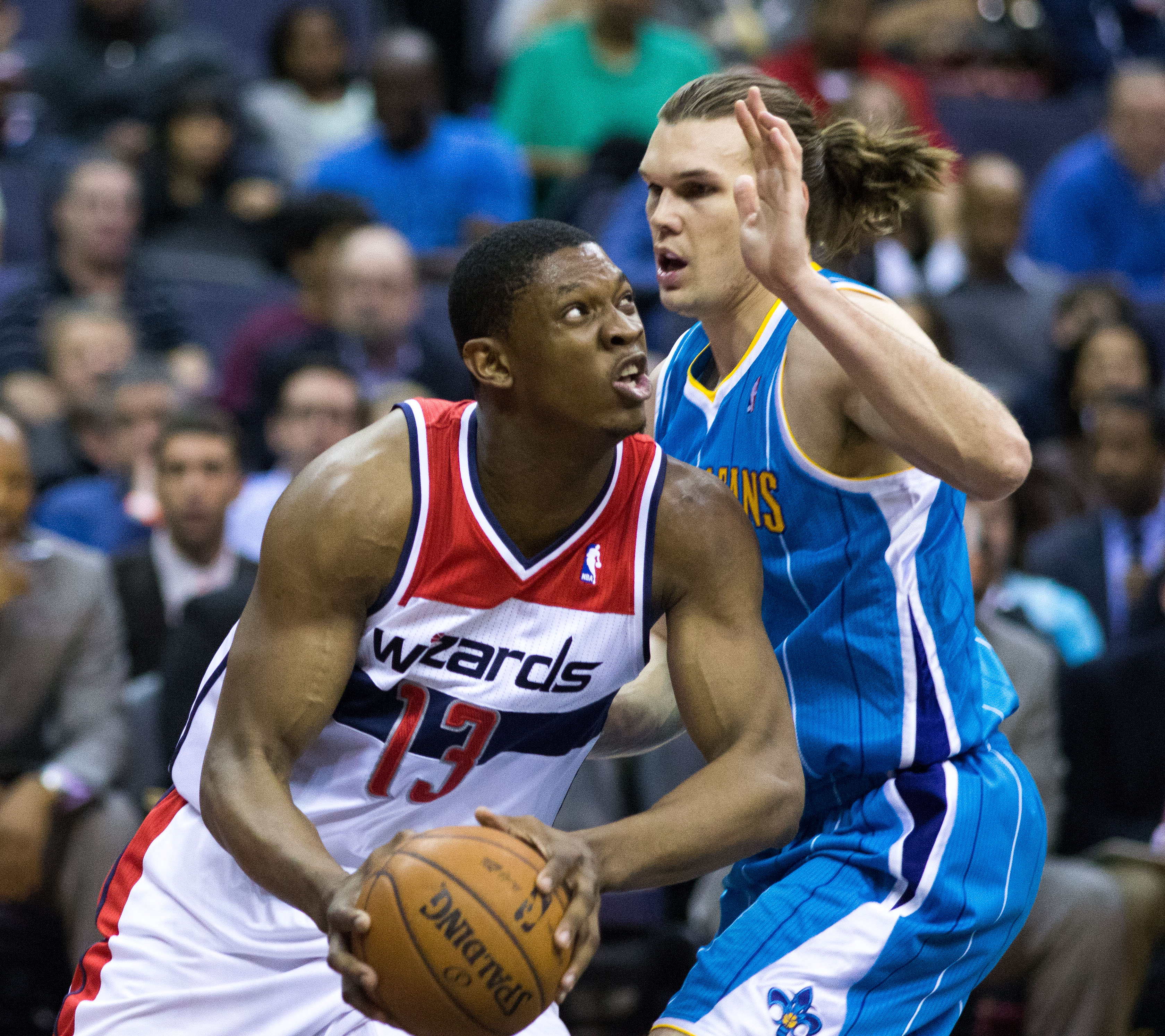 New Orleans Hornets at Washington Wizards March 15, 2013